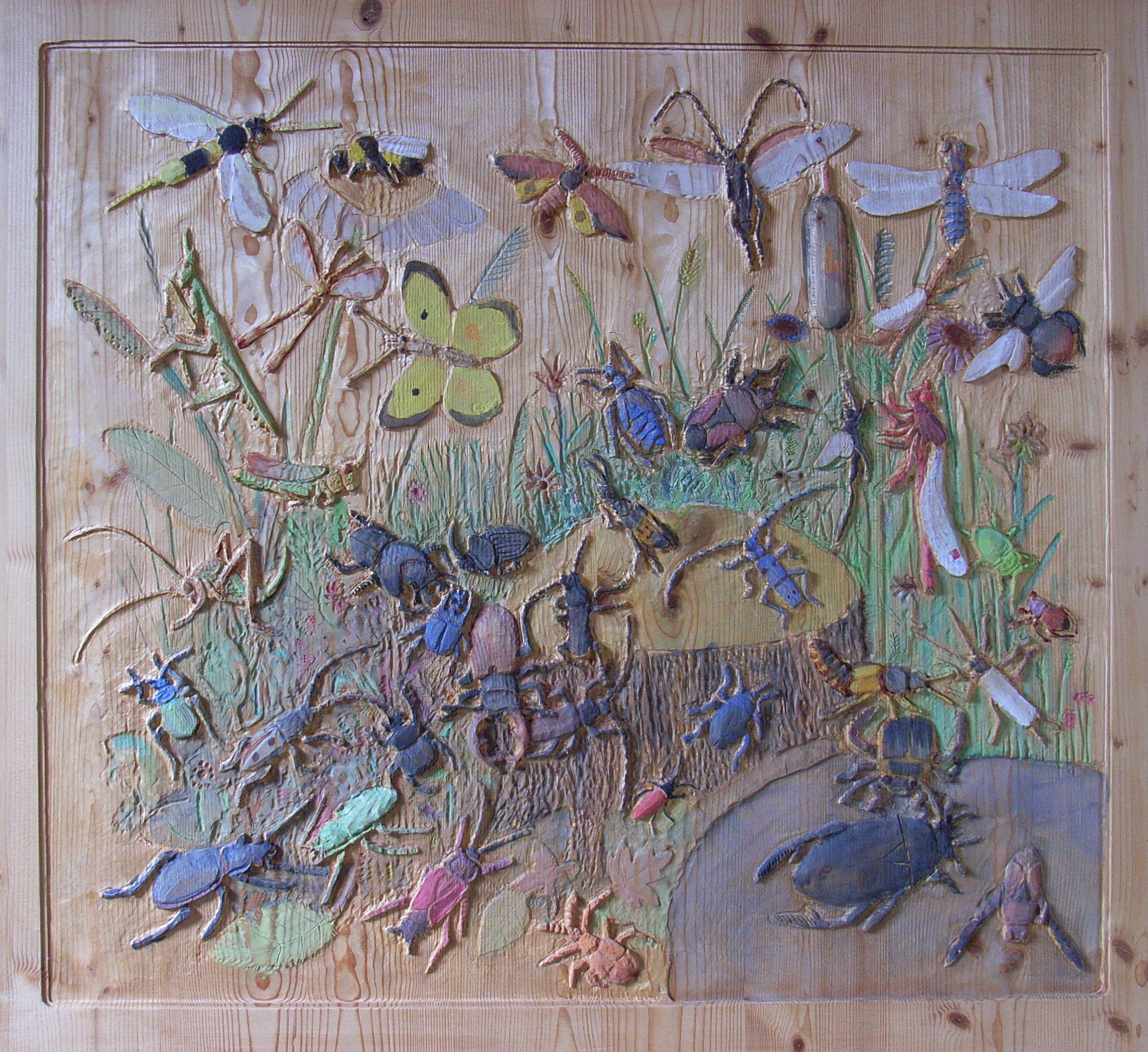 wooden and coloured woodcarving,relief,of 41 insects